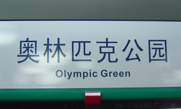 Sign "Olympic Green" in the Beijing Subway "Line 8".